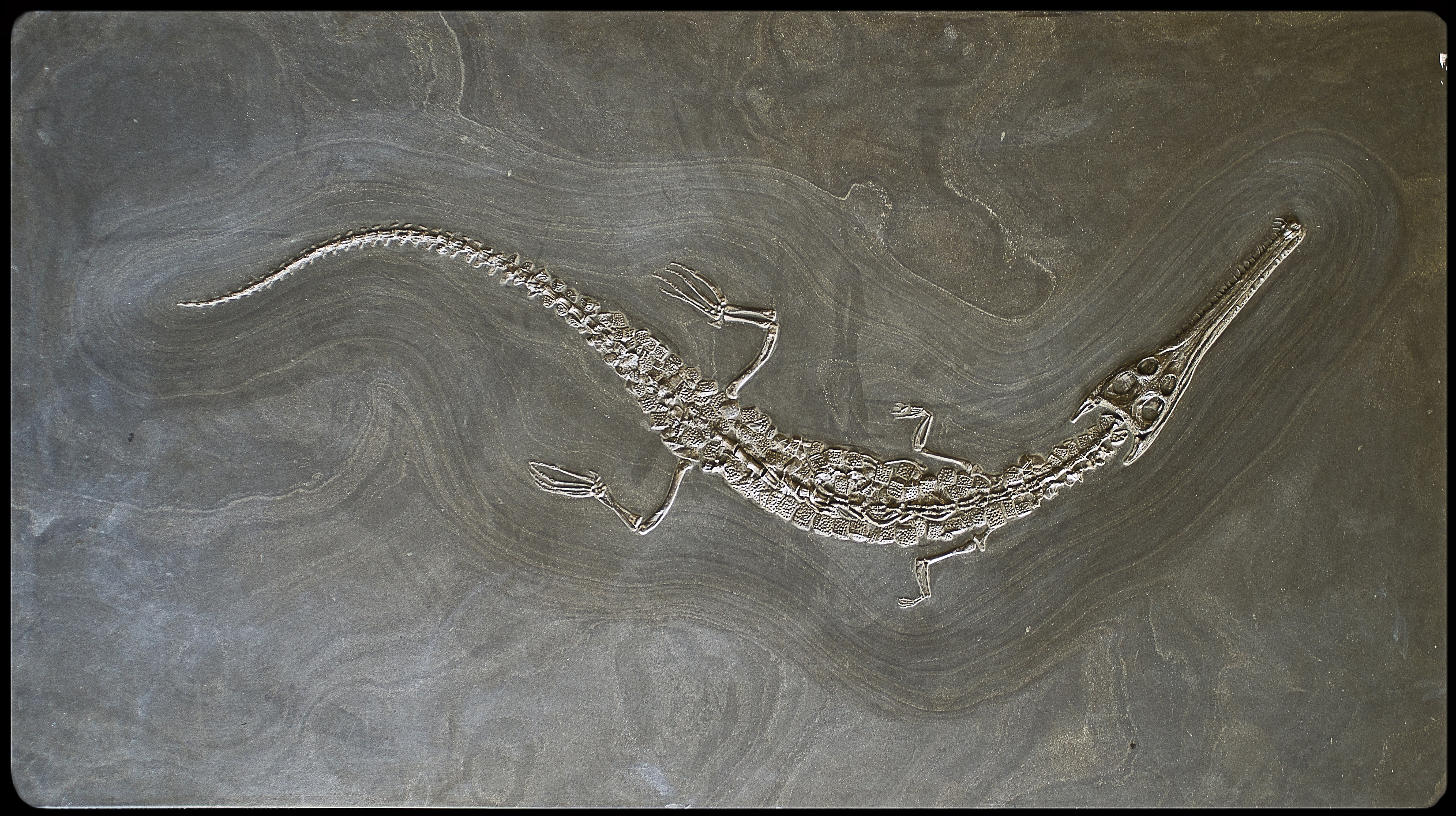 Saltwater crocodile skeleton, Macrospondylus bollensis Stage: Lower Jurassic (Toarcian) 185 million years Locality: Holzmaden Germany Size: 165×87 cm